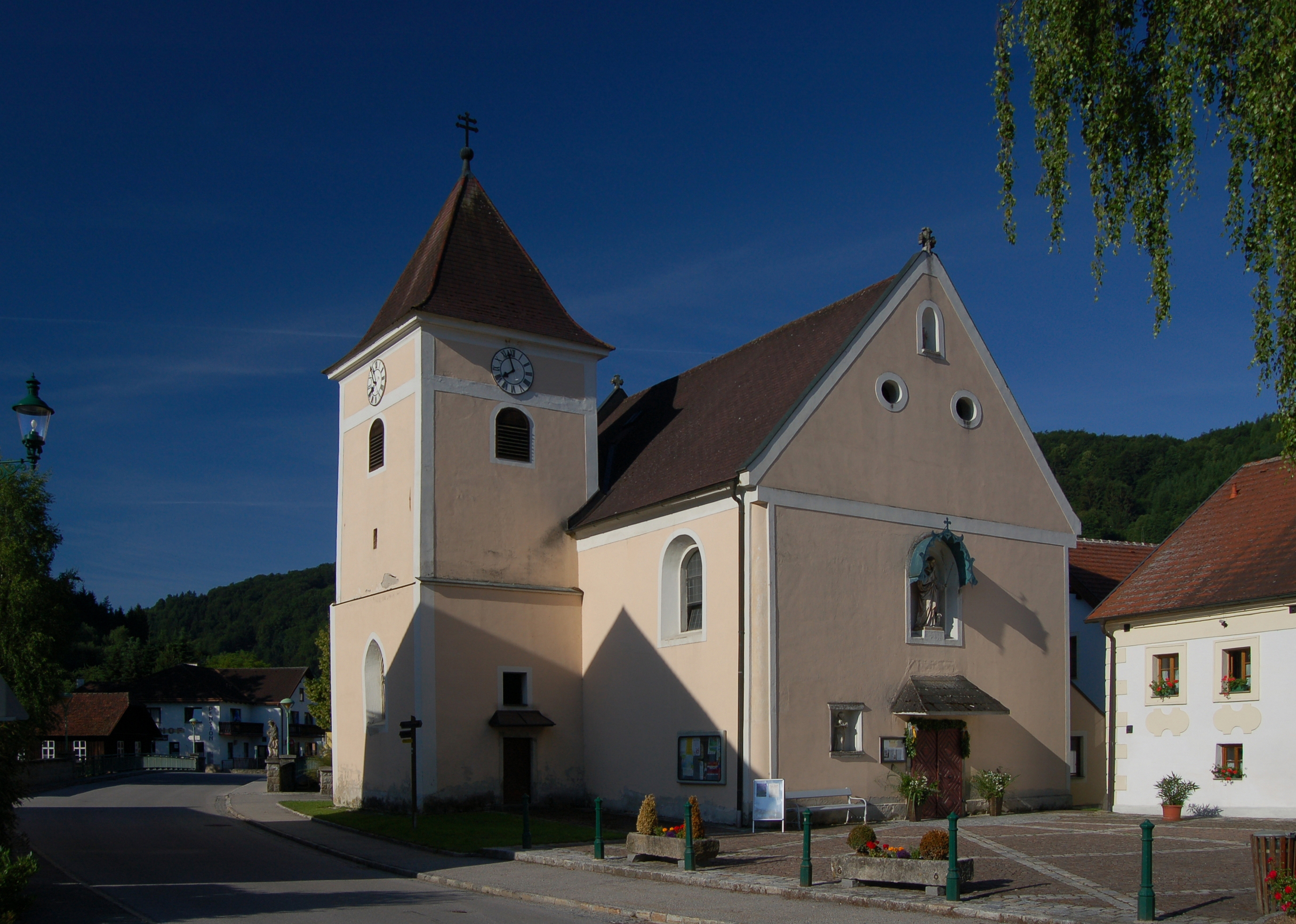 Parish church Saint Margaret in Krumau am Kamp, Lower Austria.